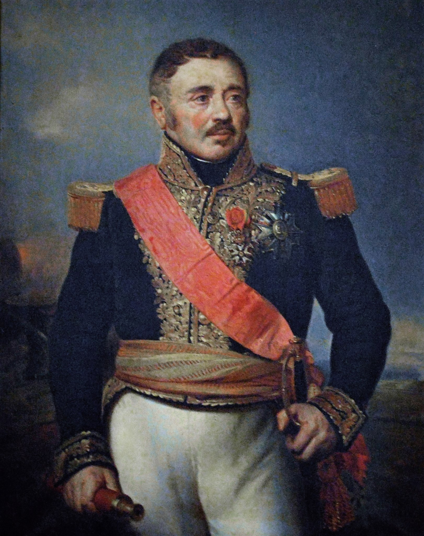 Painting of General Pierre Barrois (1774-1860). This is a rotated and cropped version of the following file form Wikipedia Commons: File:General Comte Pierre Barrois(1774.1860).JPG